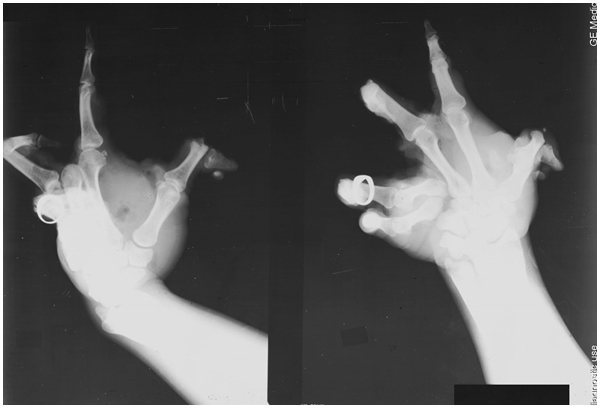 X-ray of a hand effected by homemade fireworks.